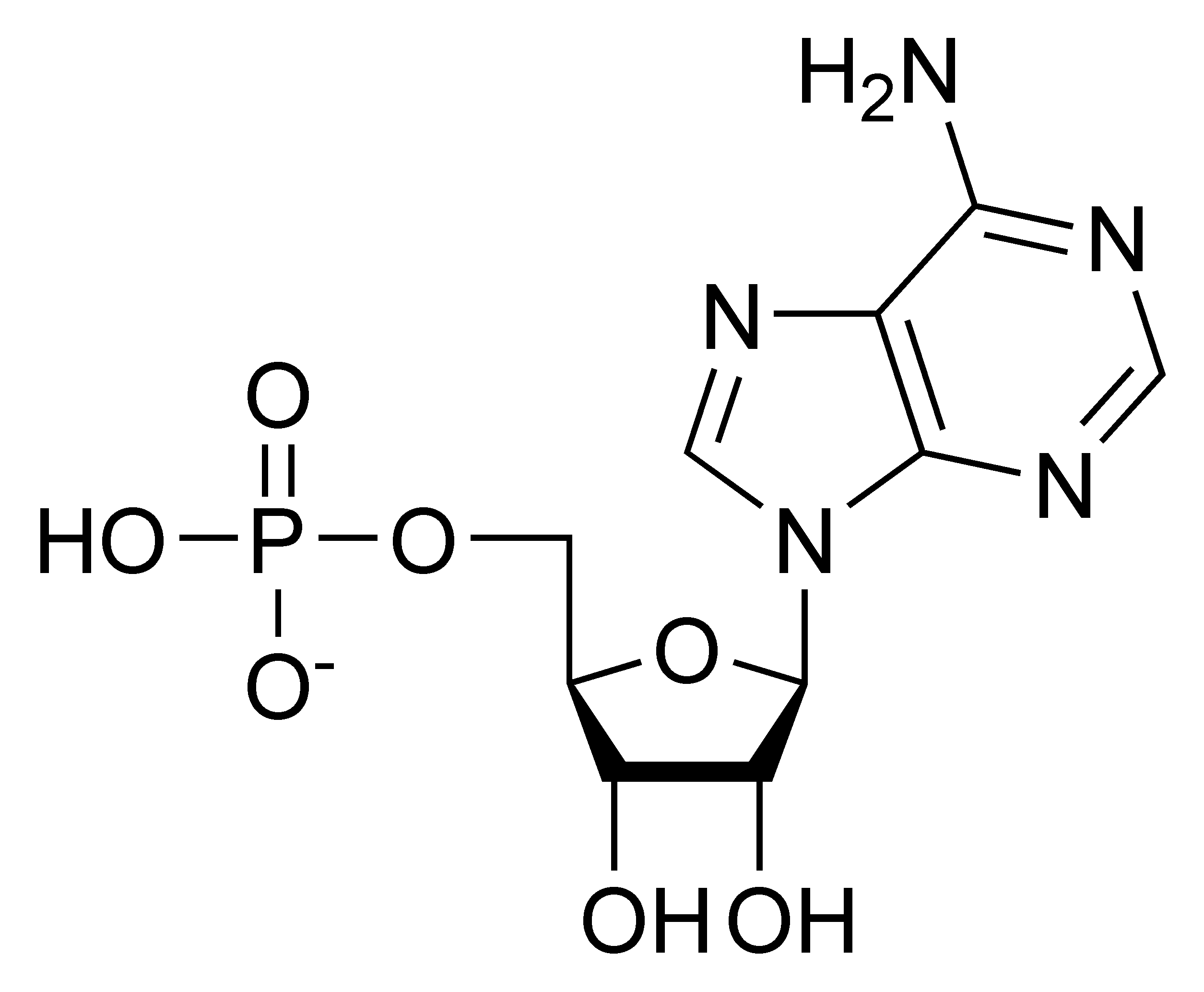 Chemical structure of Adenosine monophosphate, high-resolution b/w PNG.